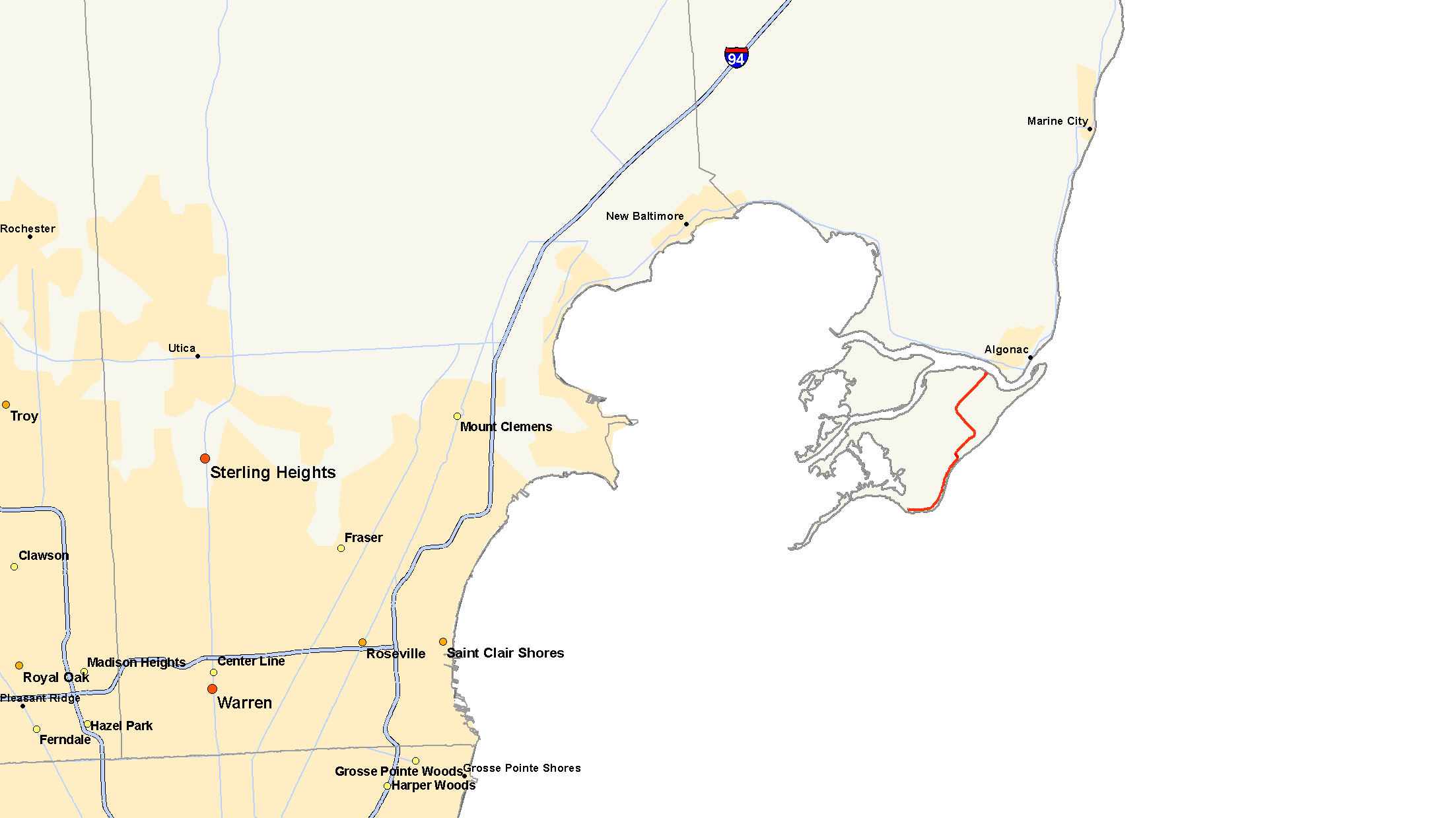 Map of M-154